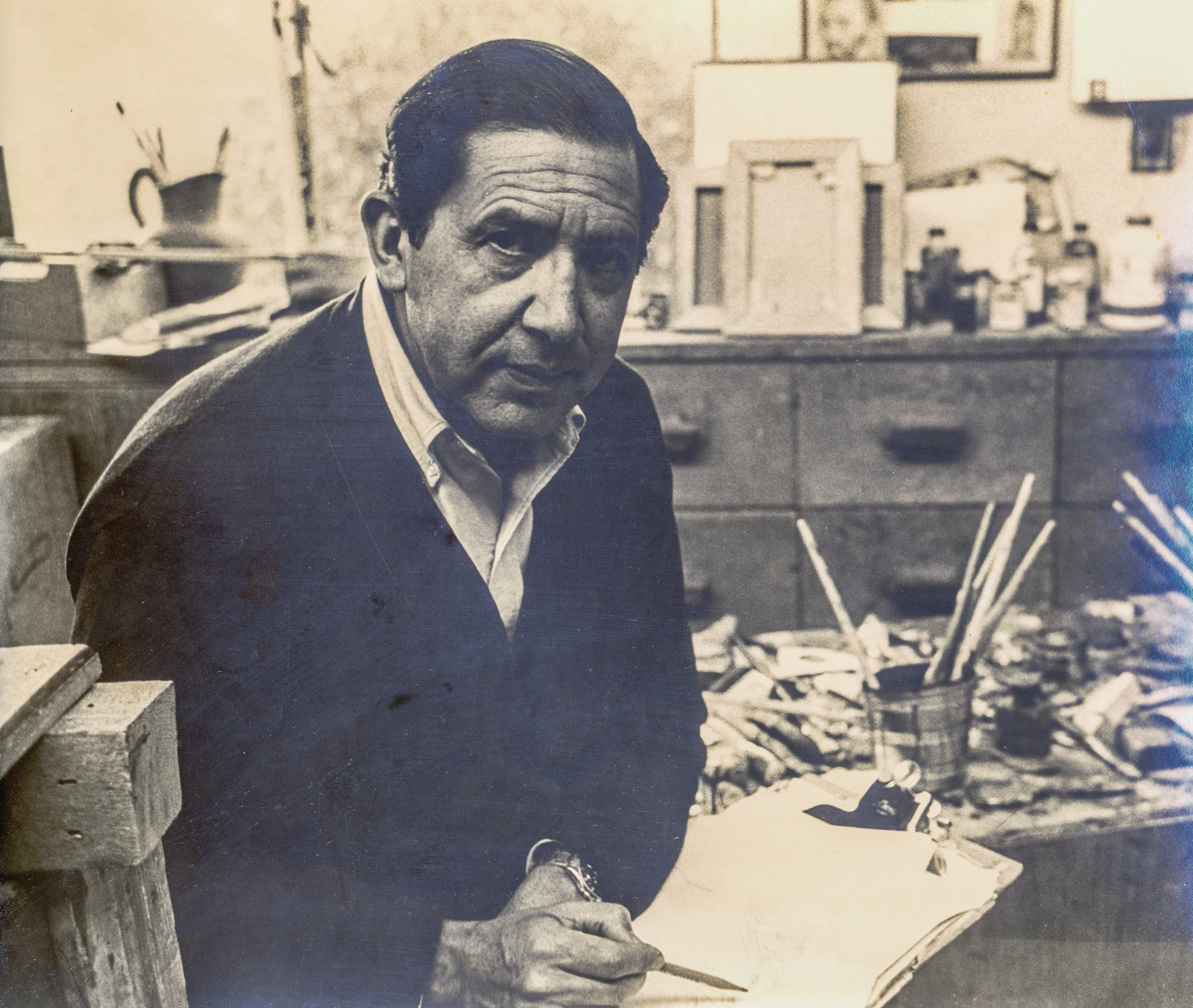 Photography of Mexican painter Ricardo Martínez while working in his studio in México City. Photo by Luis Corral Lacy.